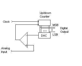 Successive approximations